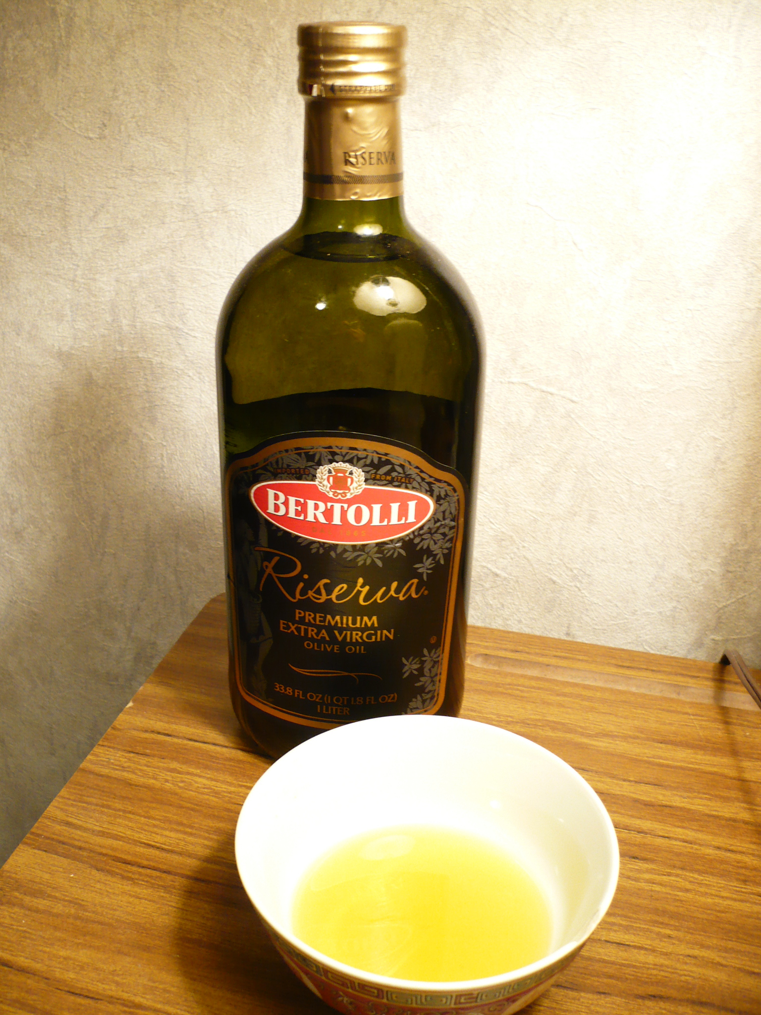 A 1-liter glass bottle and Chinese rice bowl Bertolli brand Riserva Premium extra virgin olive oil. Olive oil from Italy, Greece, Spain, and Tunisia, and bottled and packed in Italy. Olive oil purchased in a Stow, Ohio store. Photographed in Kent, Ohio, United States.